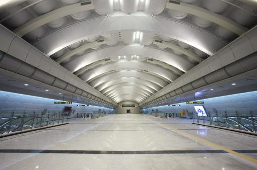 Express bus terminal on subway line 9 in Seoul.